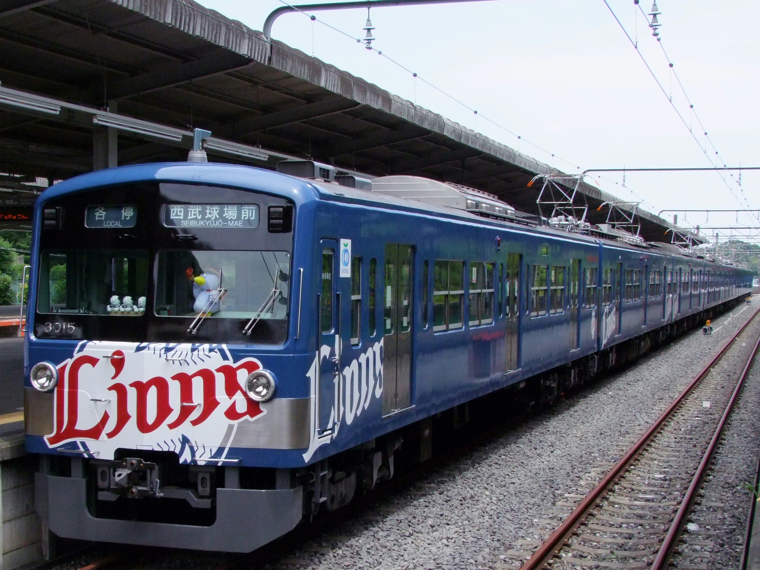 Seibu 3000 series, Kuha 3015, Painted on "Legend Blue" (Saitama Seibu Lions Color).